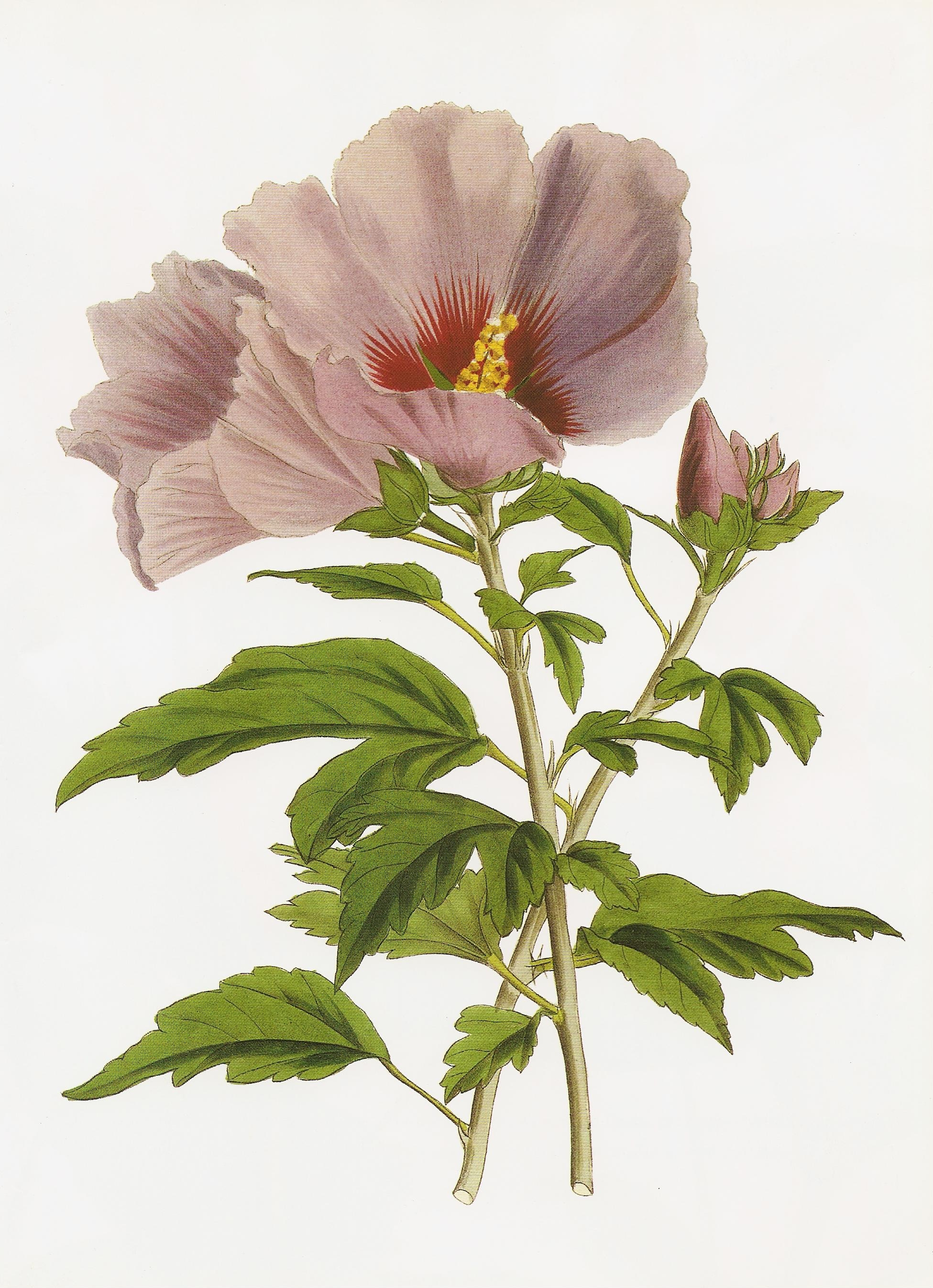 Hibiscus syriacus var. chinensis, a hand-retouched chromolithograph by Louis-Aristide-Léon Constans (fl. 1830s-1860s), plate 106 from the third volume of Paxton's Flower Garden (1852-1853) by John Lindley and Joseph Paxton